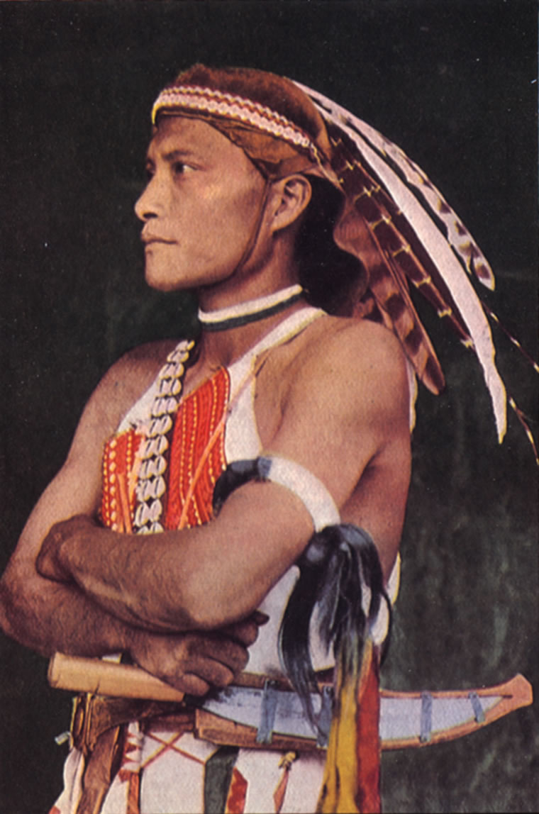 Pre-World War II photo of a Tsou youth.